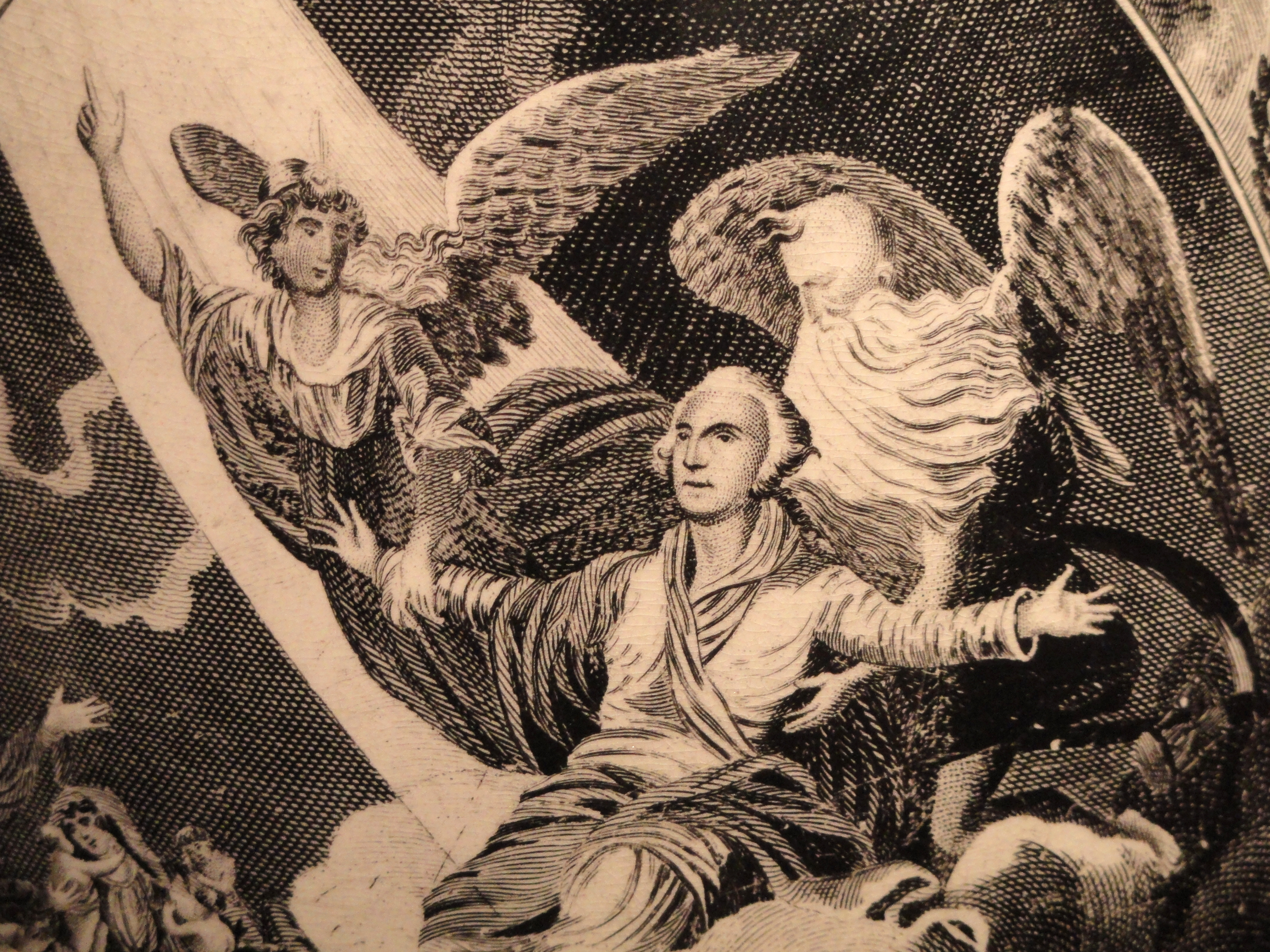 Apotheosis of George Washington (detail), Herculaneum Pottery, c. 1800-1805, John James Barralet, artist. Exhibited in the National Portrait Gallery, Washington, DC, USA. This artwork is old enough so that it is in the public domain.